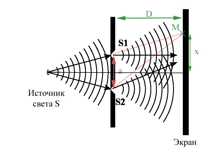 Young's experience